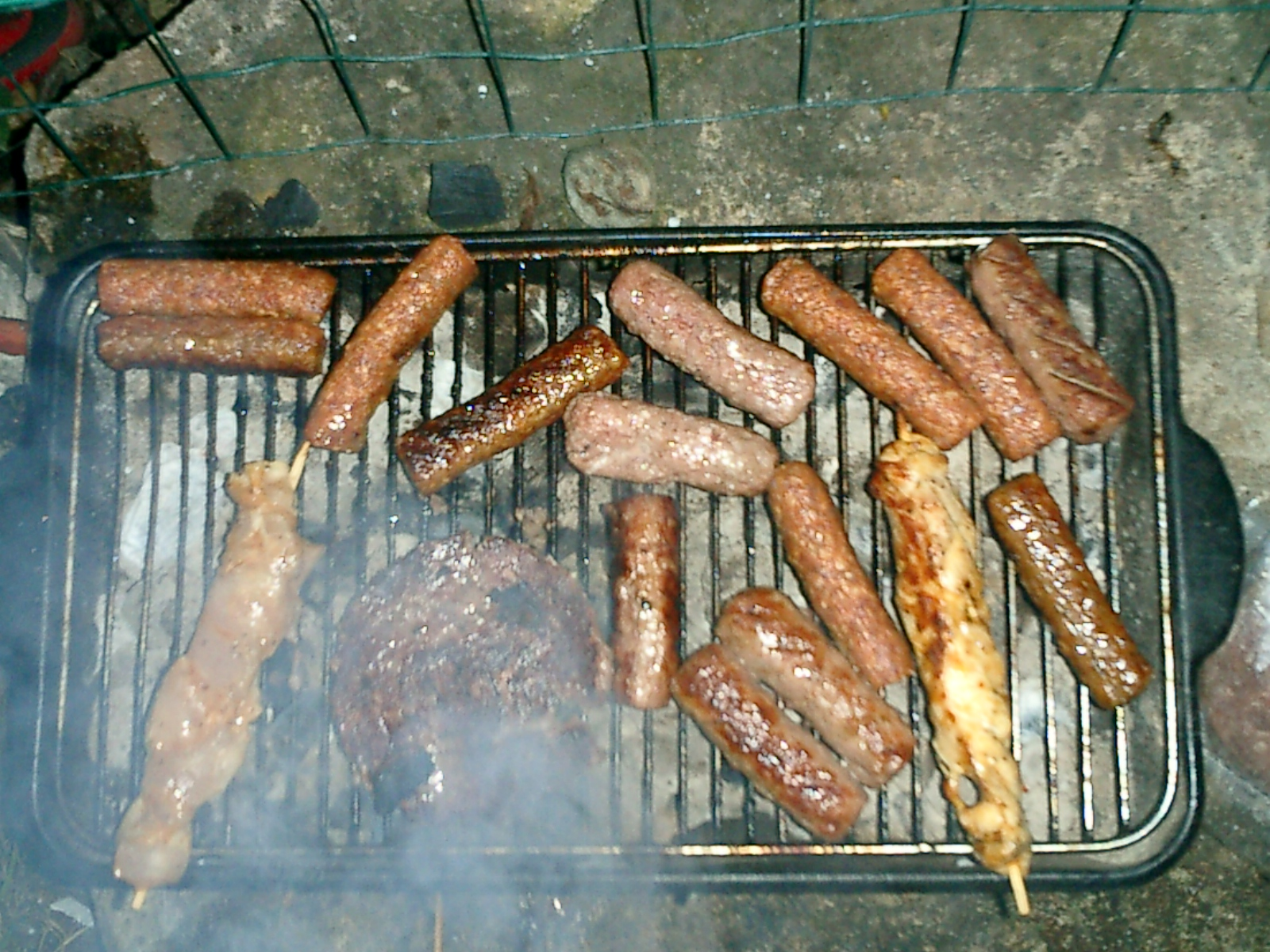 Grilling